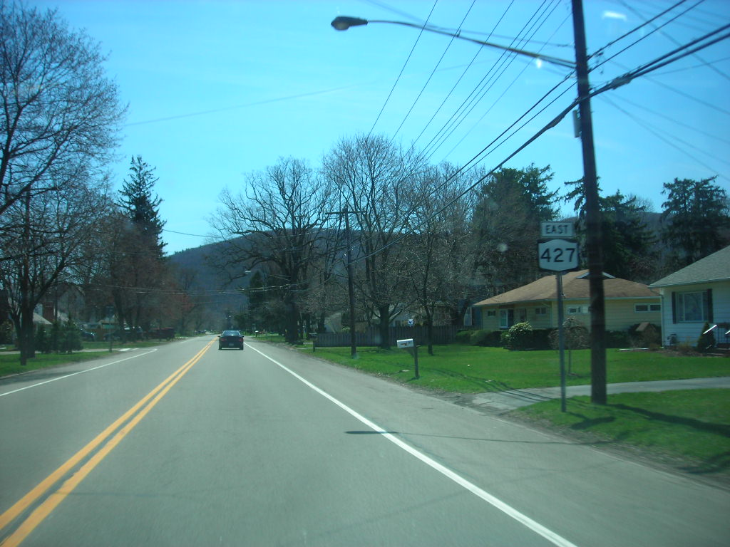 Eastbound along New York State Route 427.